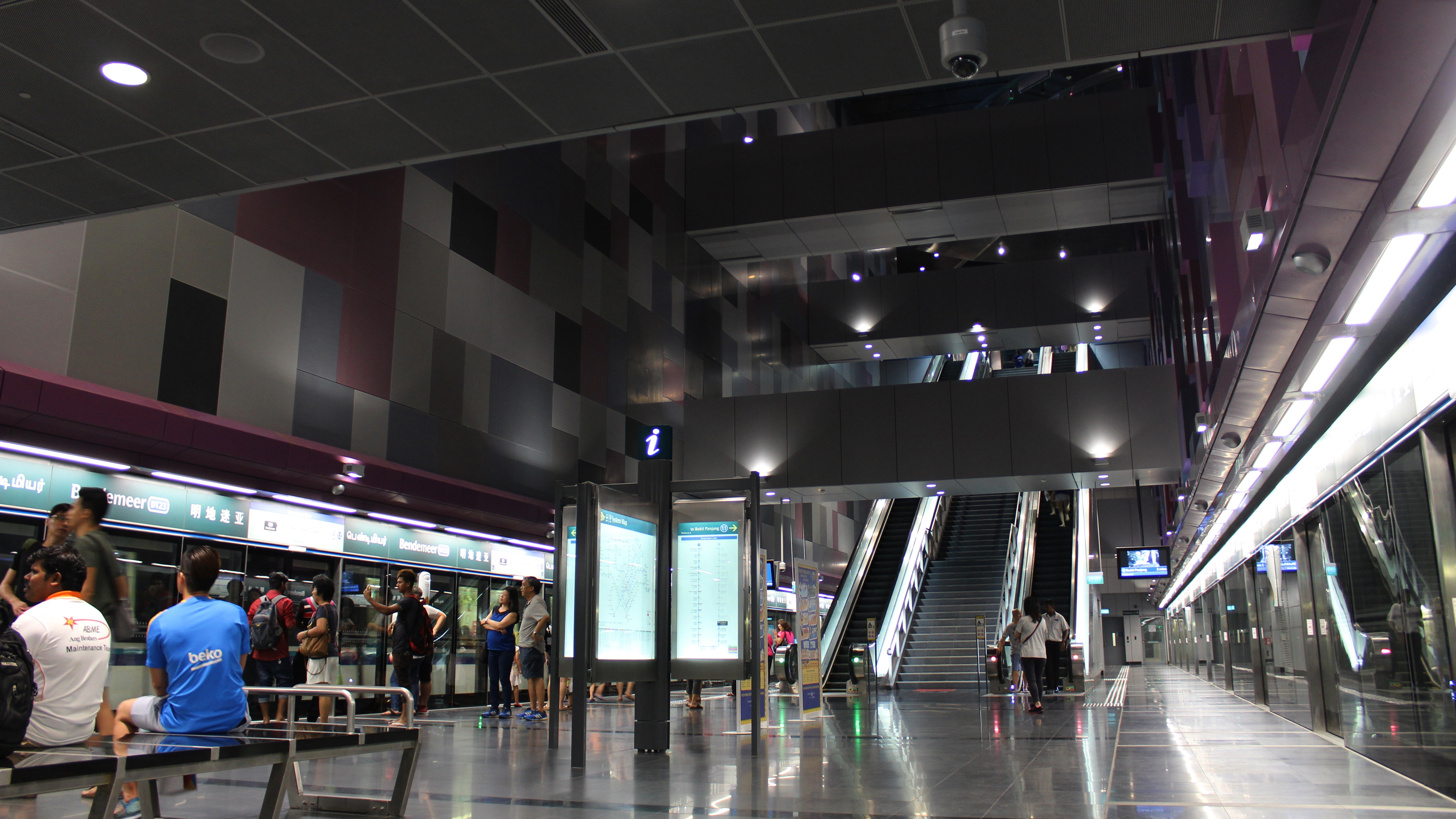 DT23 Bendemeer station